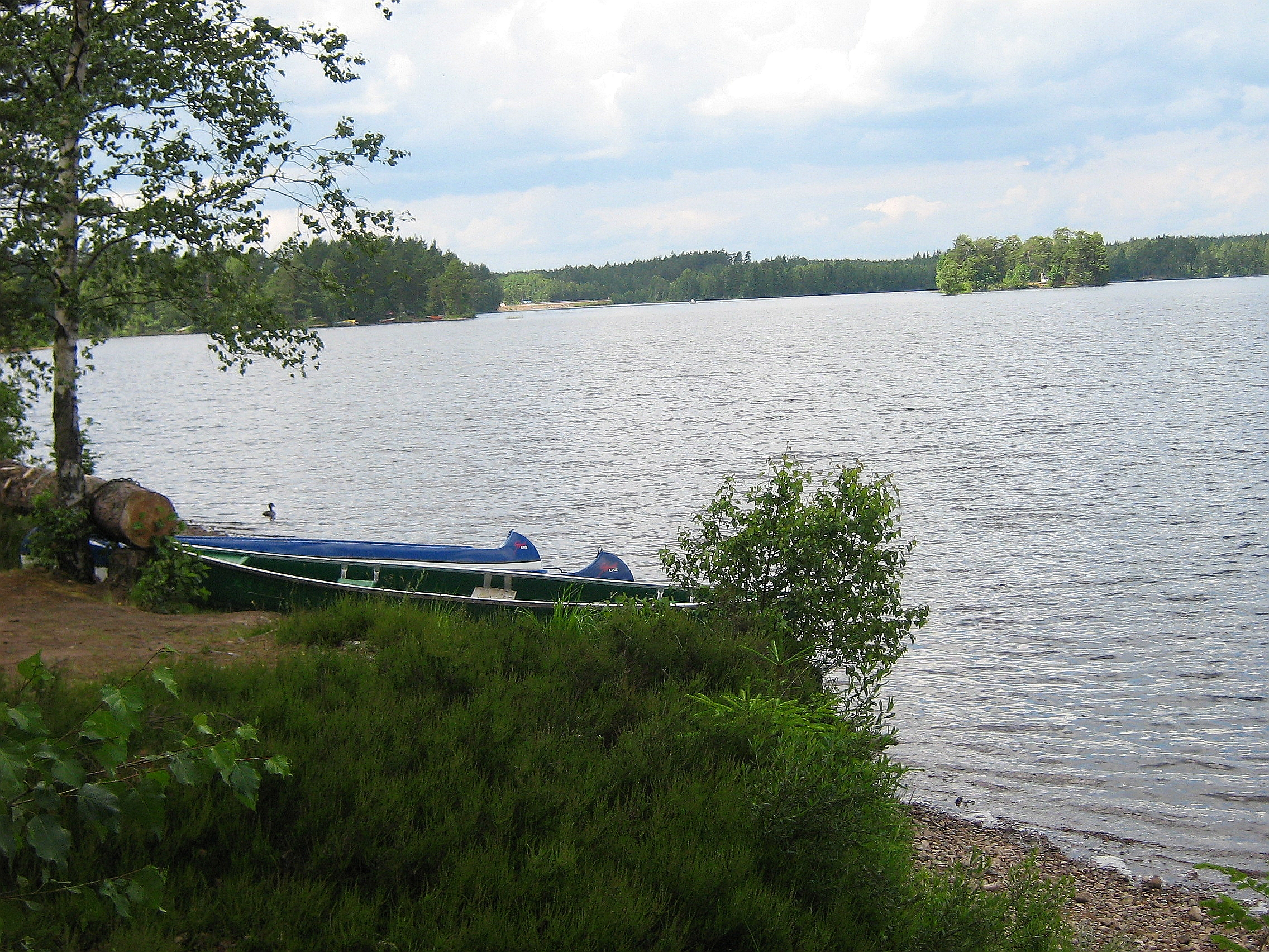 Orranäsasjön